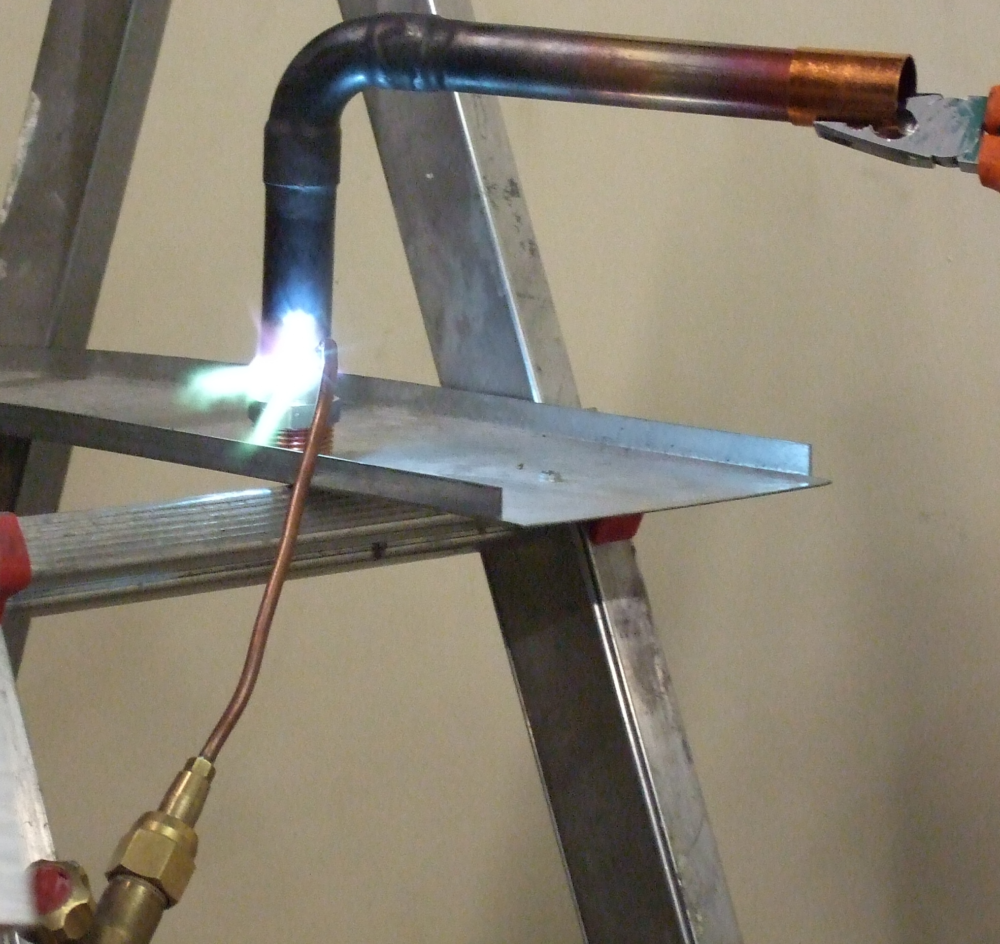 Oxyacetilene welding of a copper pipe.